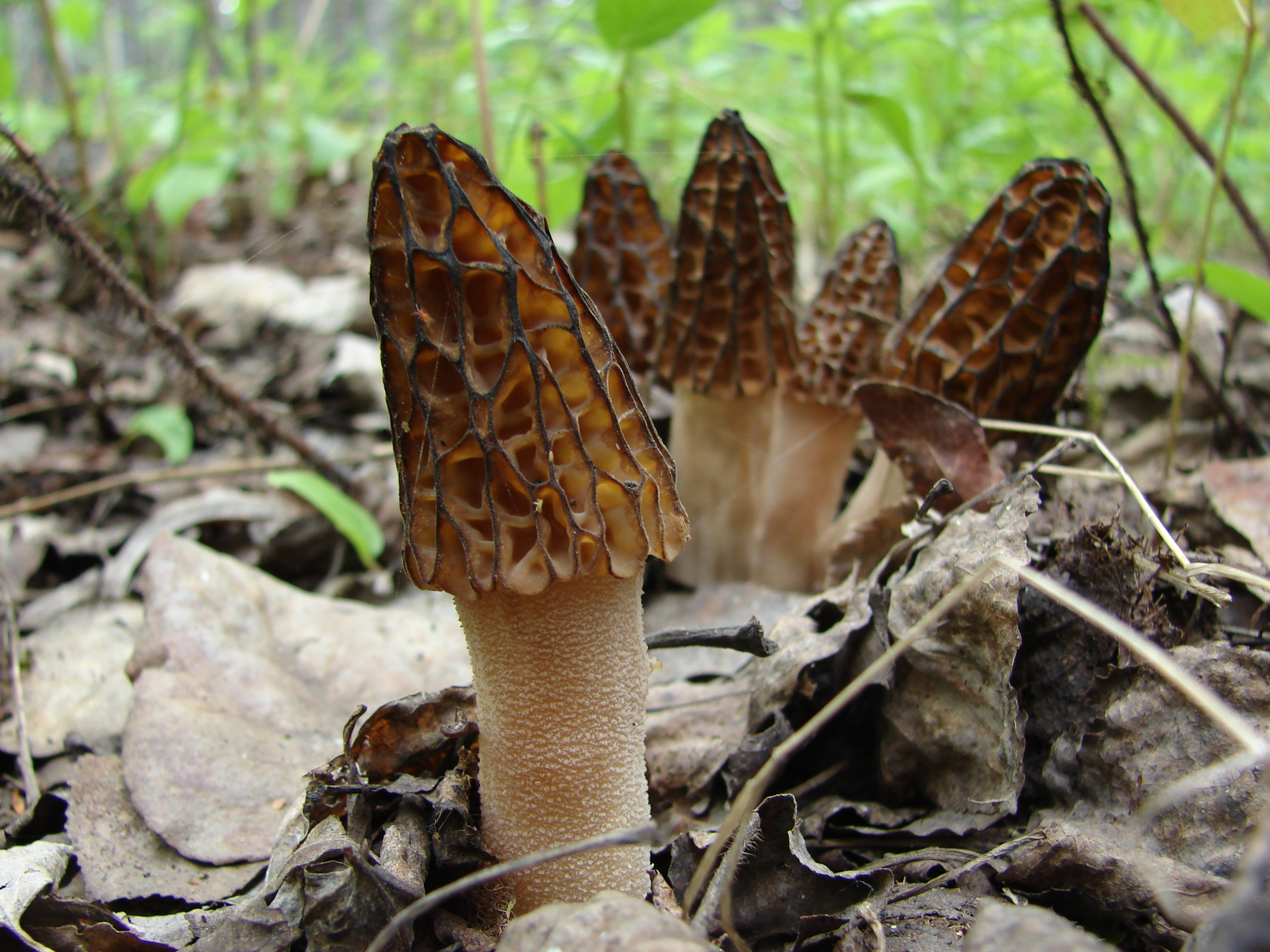 The fungus Morchella angusticeps Peck. Photographed in Peace River Area, British Columbia, Canada.